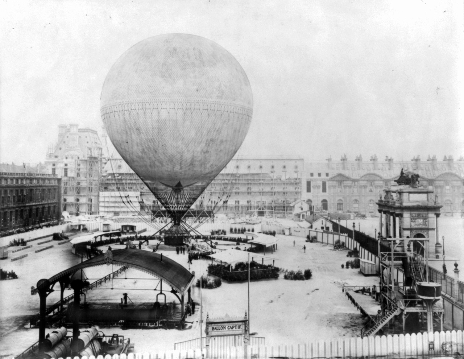 Grand Balloon de Mr. Henri Giffard, 1878. Birds-eye view of Balloon before ascent from Tuilerie Gardens, Paris; large crowd and reviewing stands.